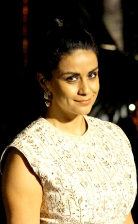 At lakmee 2017